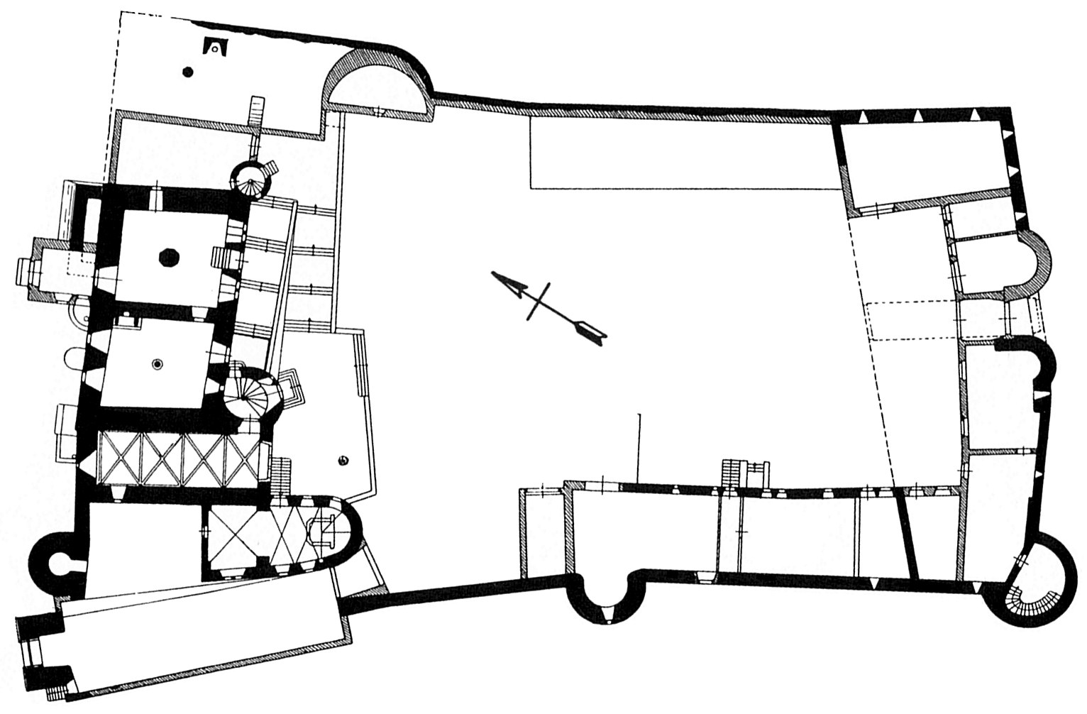 Floorplan of Hamm Castle